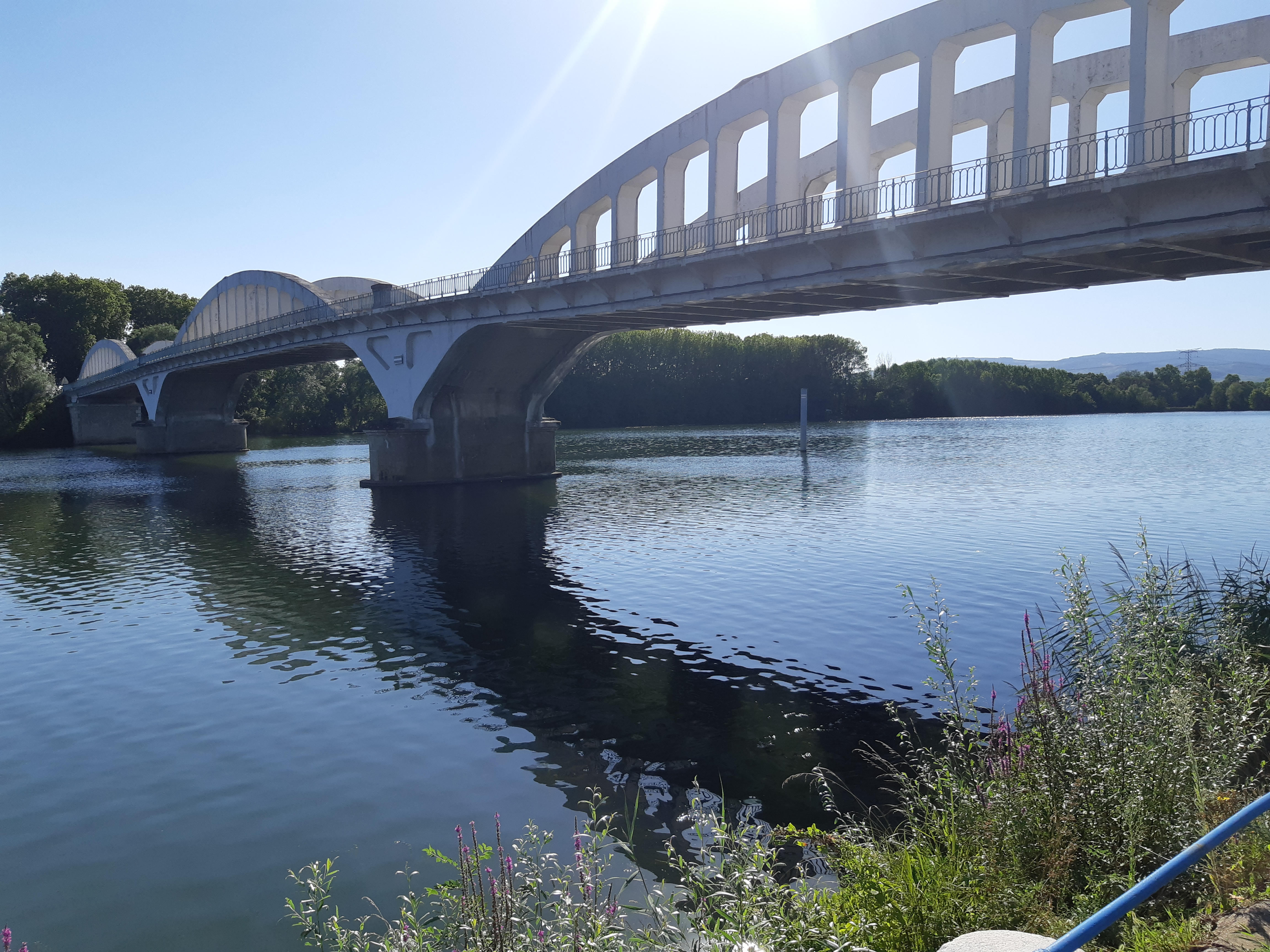 Pont de Thoissey in Département Ain, (France)